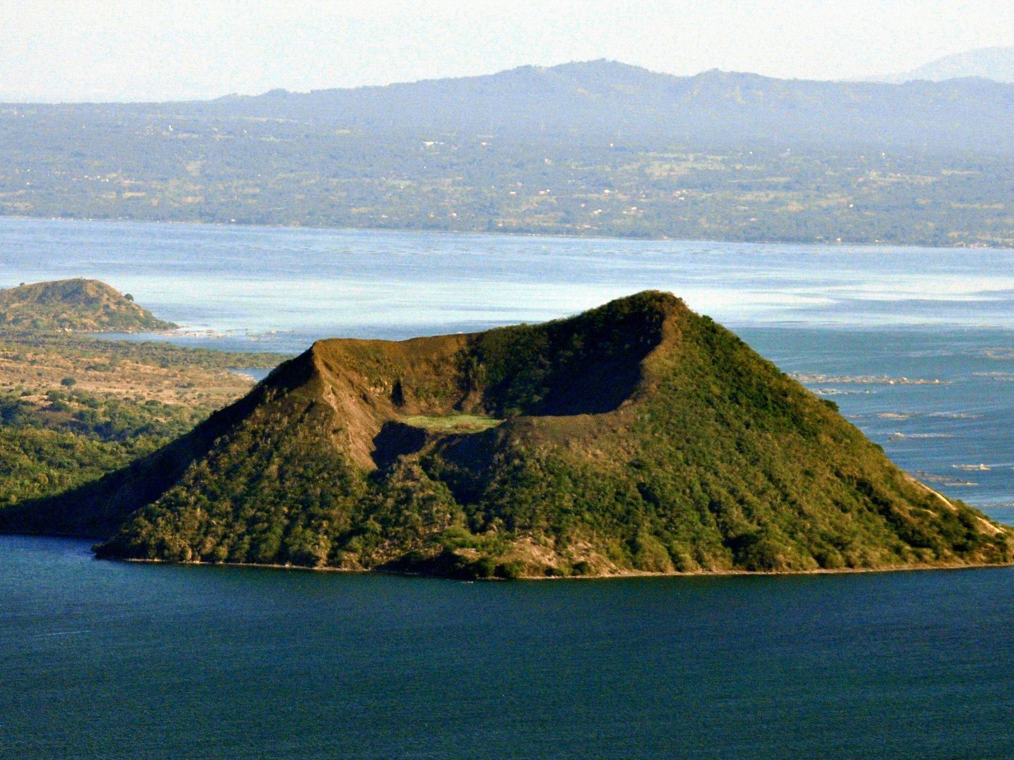 Binintiang Malaki volcanic cone of Taal volcano in the Philippines.